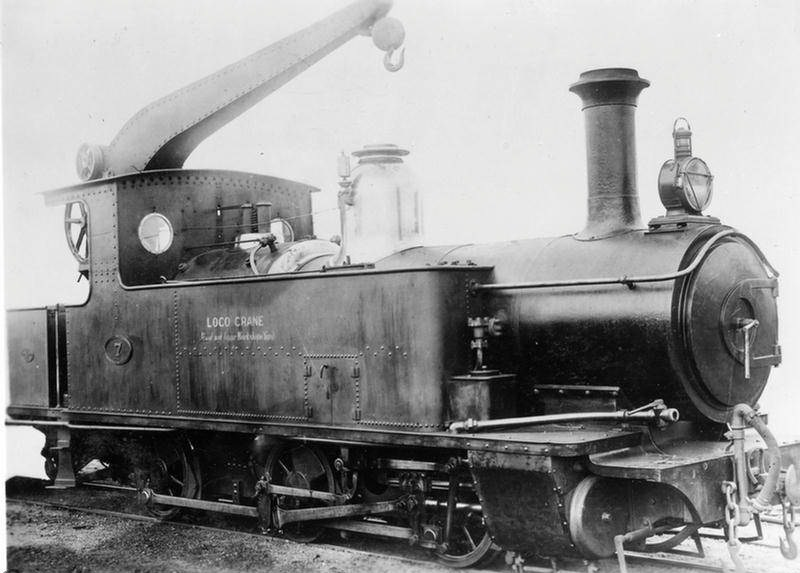 A three quarter view of WAGR U class tank locomotive no. U 7, in original condition with crane attached.